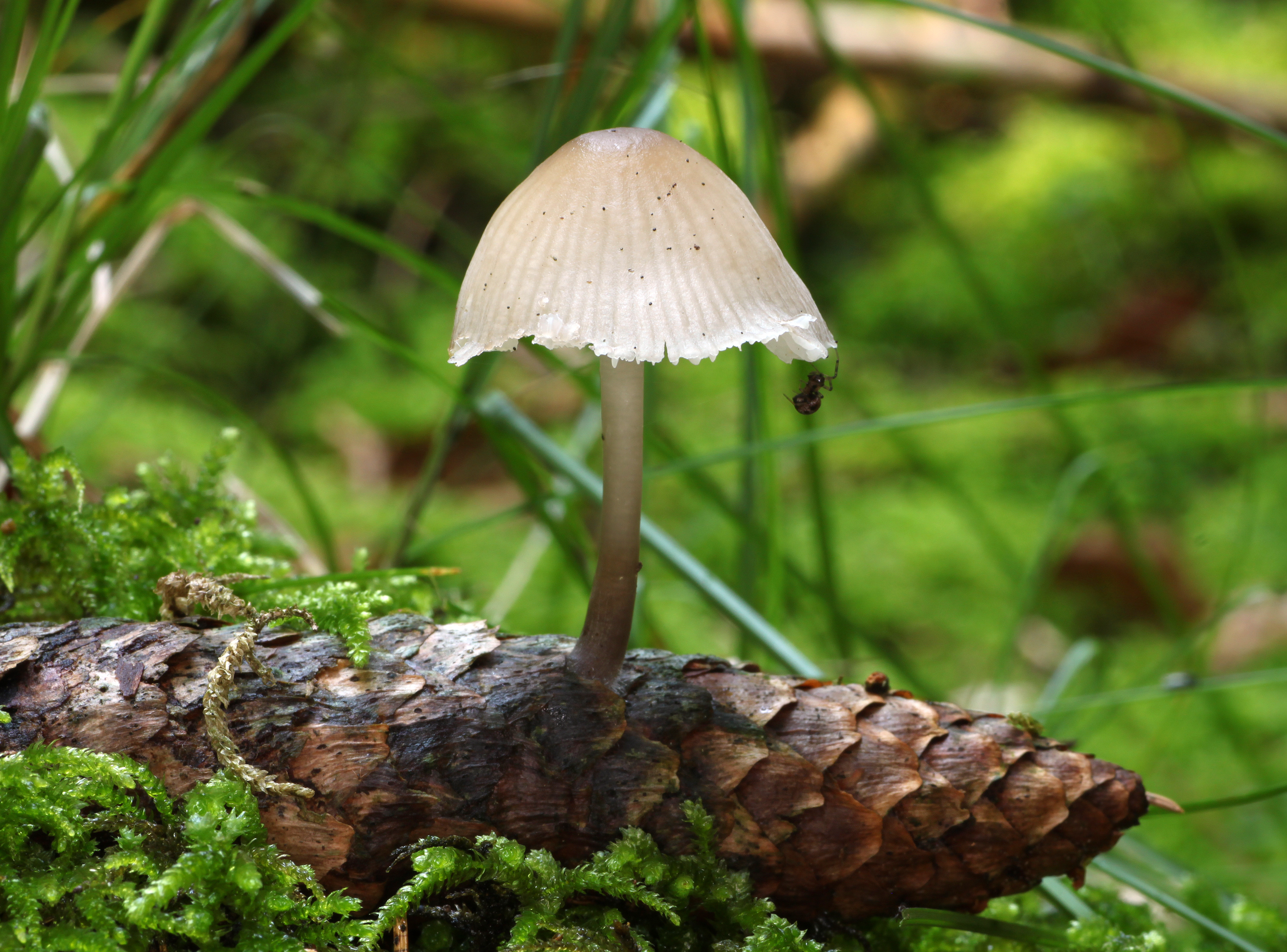 Mycena strobilicola; family: Tricholomataceae; location: Germany, Ulm, Eggingen.